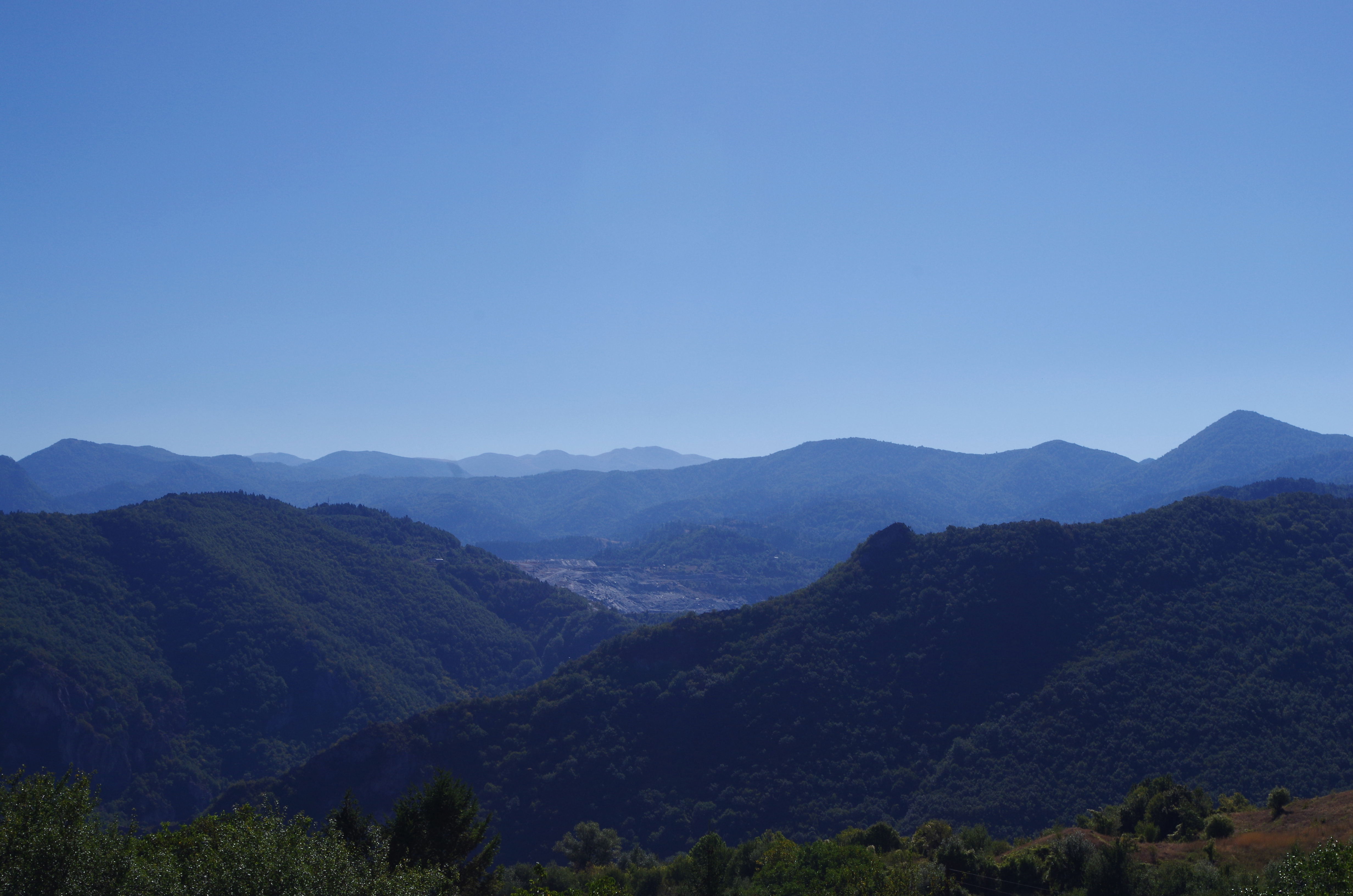 View of Ržanovo deposit near the village of Rožden